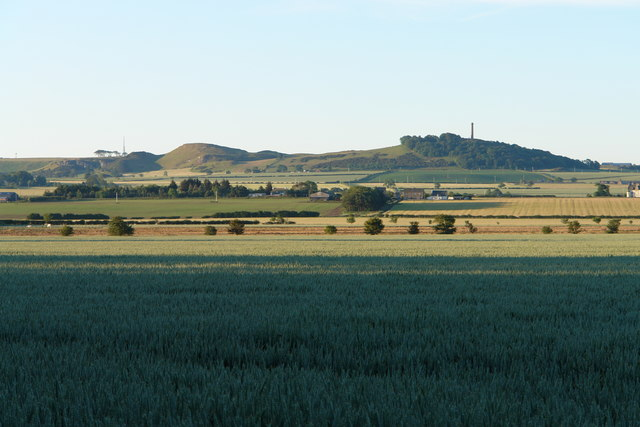 Garleton Hills and Hopetoun Monument. Looking south from west of Luffness Mains towards the Garleton Hills and the Hopetoun Monument which is on the rightmost hill.